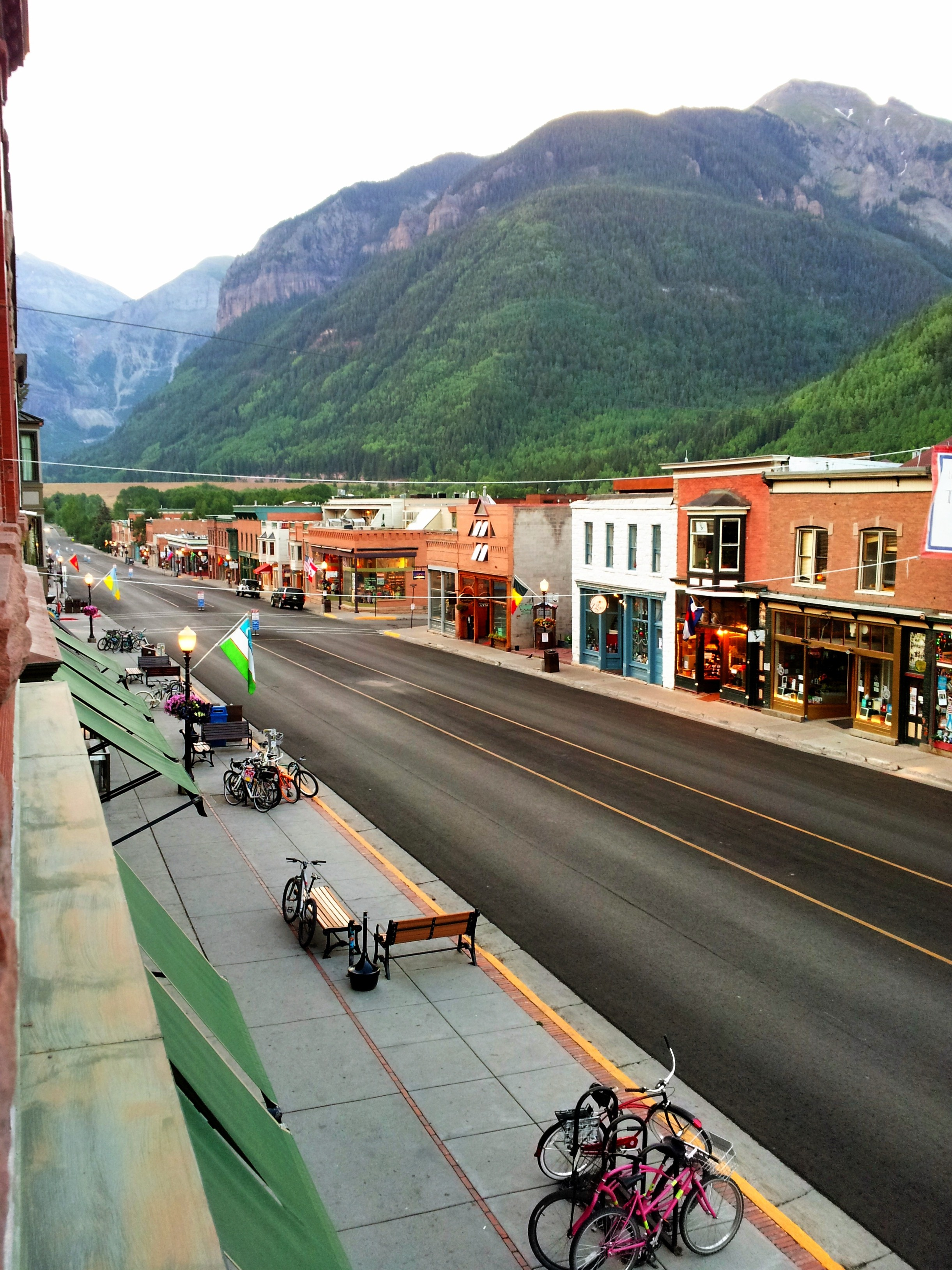 Telluride as seen from the second story of The New Sheridan Hotel